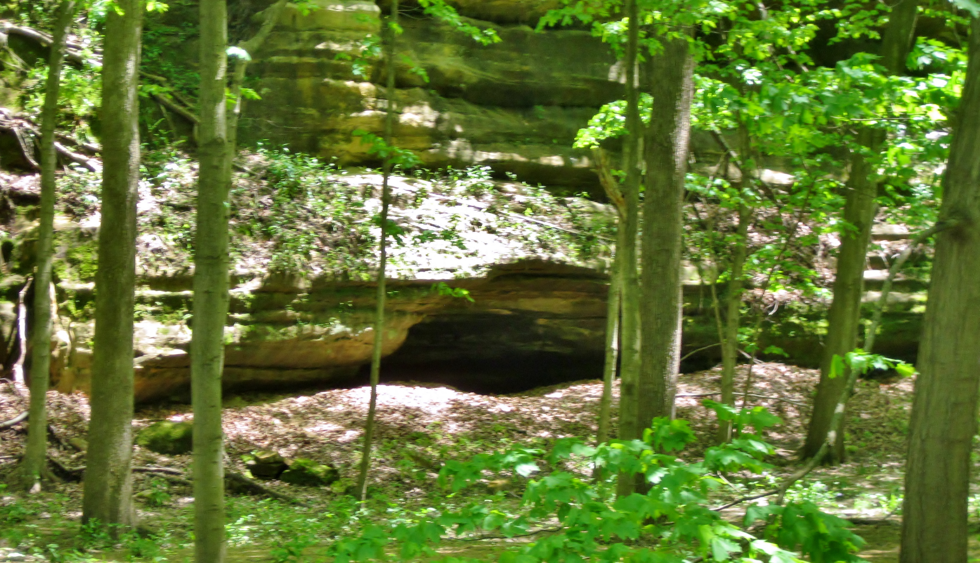 Shaky Shelter Site in Deer Park Township, IL (c. 500-900). It is one of six small caves/overhangs in the park known to contain evidence of use. The deposits were mostly unnoticed until 1992. When excavated, researchers found a rich zone of animal bones under the surface. Further deposits date to c. 1640.